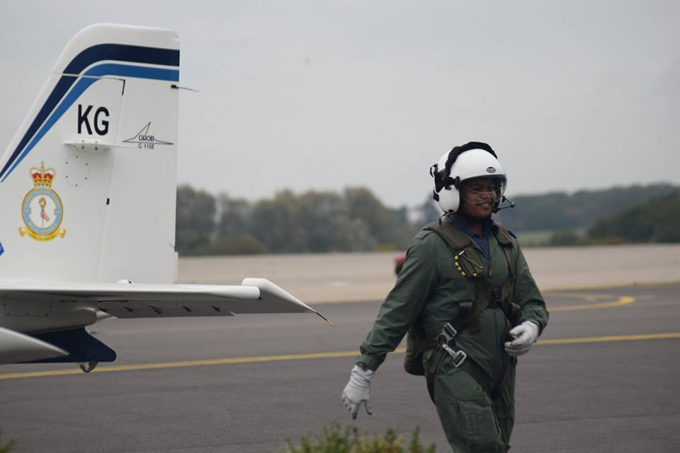 Behind is the tail of the Grob Tutor aircraft. When flying, a cadet would normally wear a flying suit with a parachute, as well as a helmet. In some cases, a life jacket would be required.